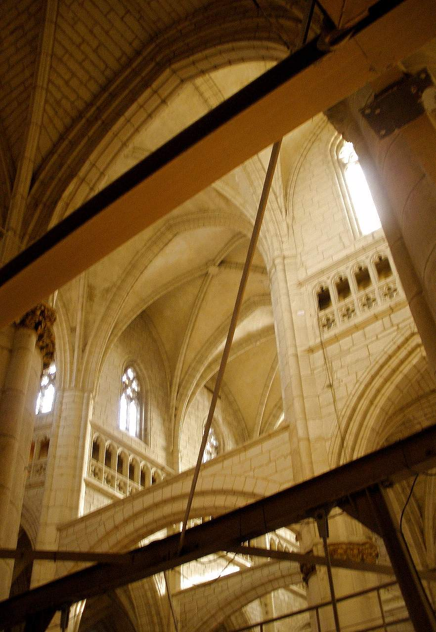 Catedral de Santa María (Catedral Vieja) de Vitoria-Gasteiz